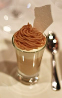 Mont Blanc dessert at Tetsuya's Restaurant in Sydney